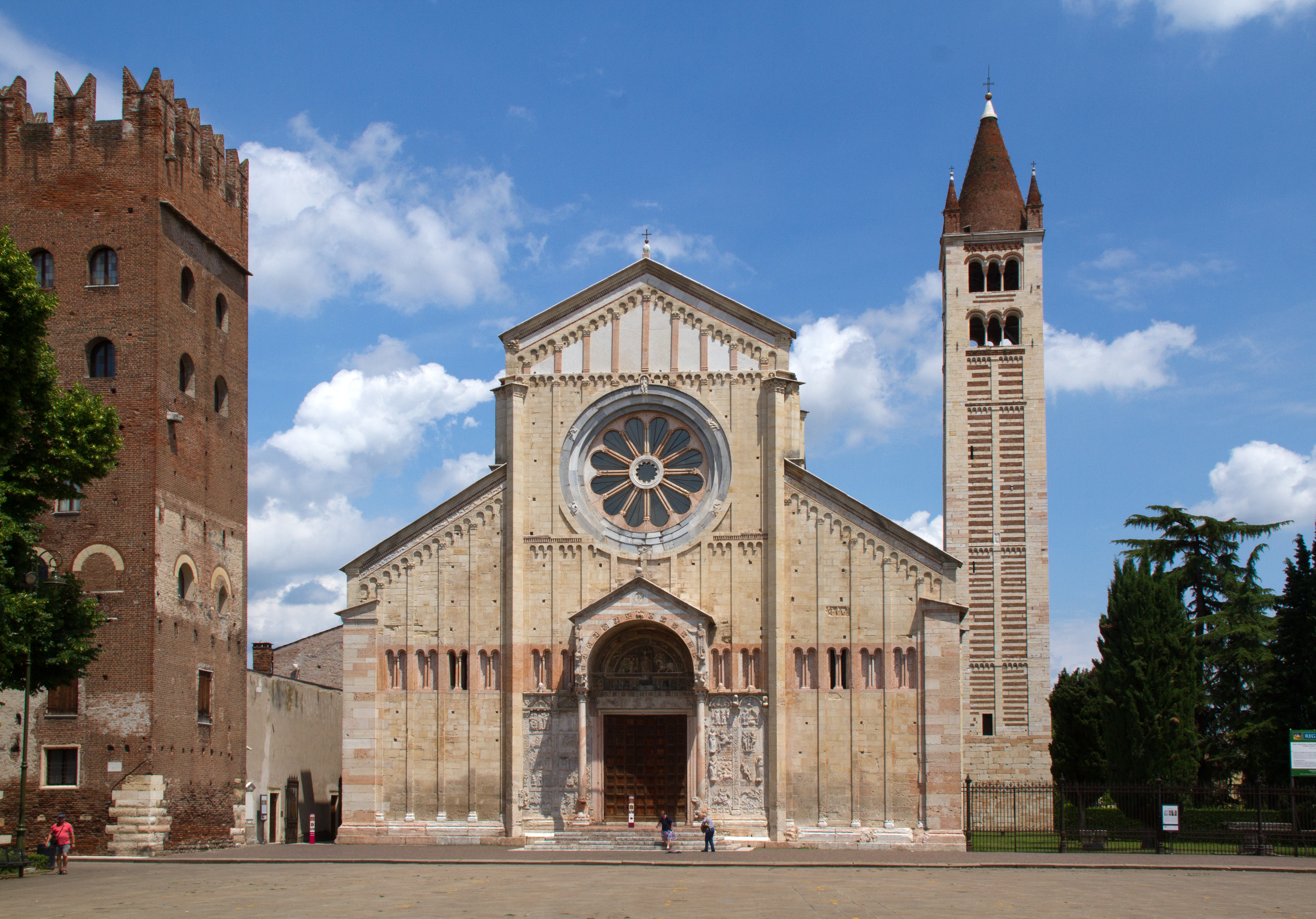 Ornate Romanesque Church built between 1120 - 38AD